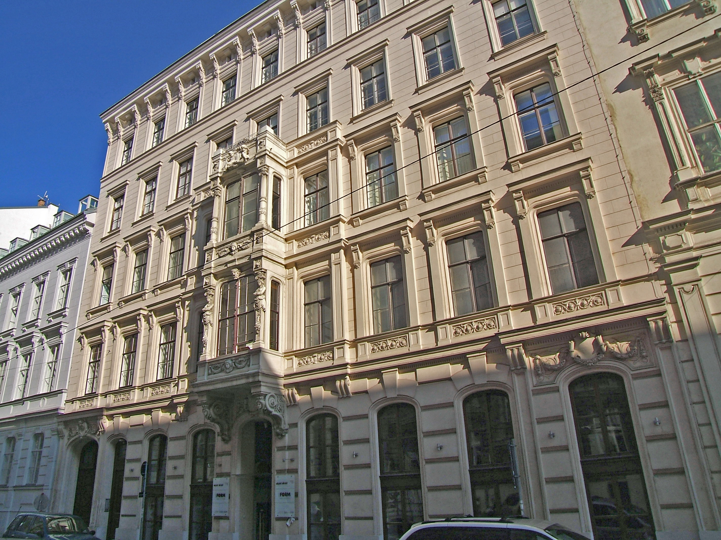 Palais Bauer in Vienna, 9th district Türkenstraße 17